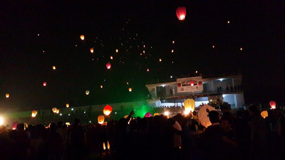 Sky lanterns UET